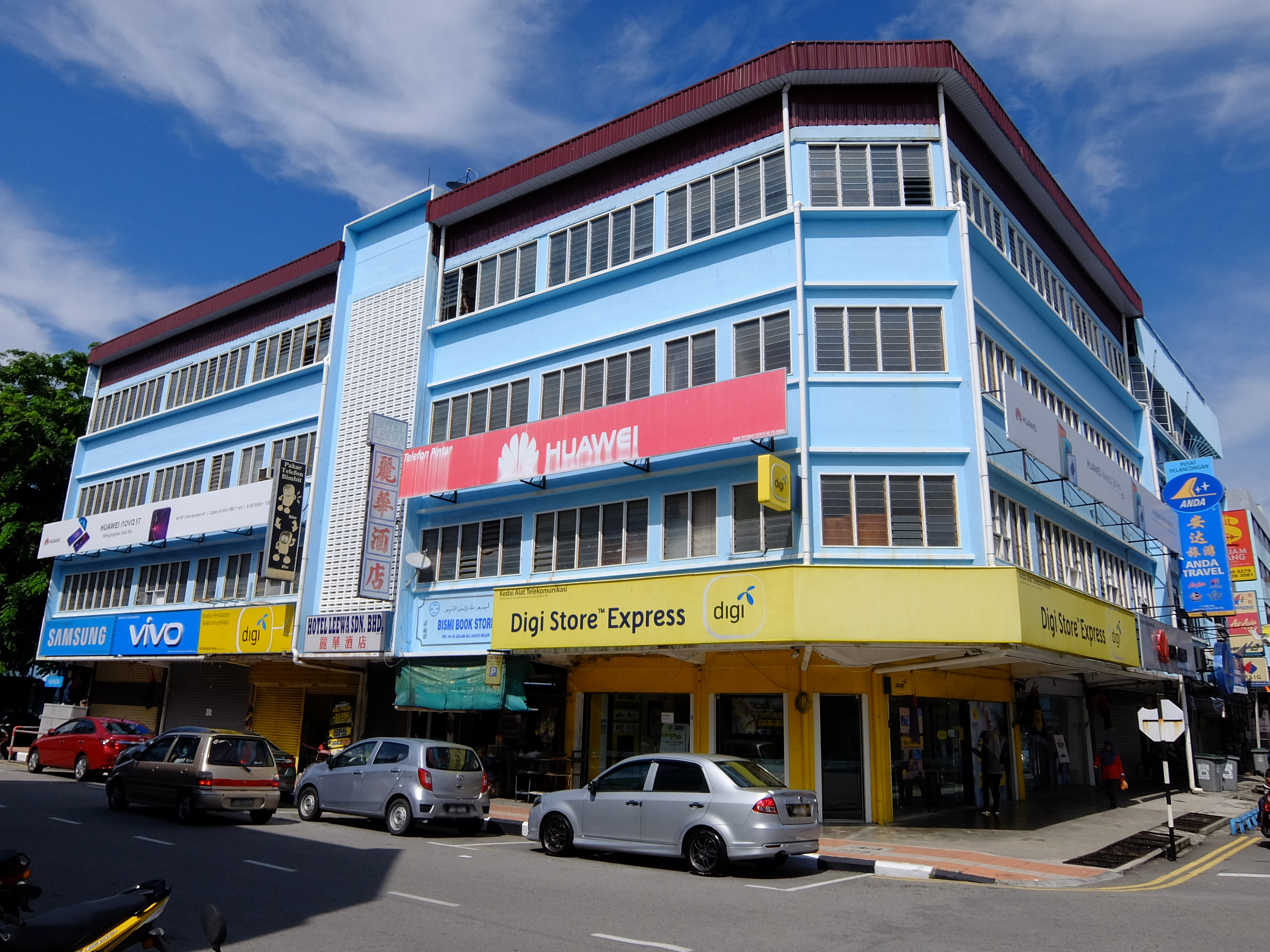 Leewa Hotel, Bandar Maharani, Muar, Johor, Malaysia